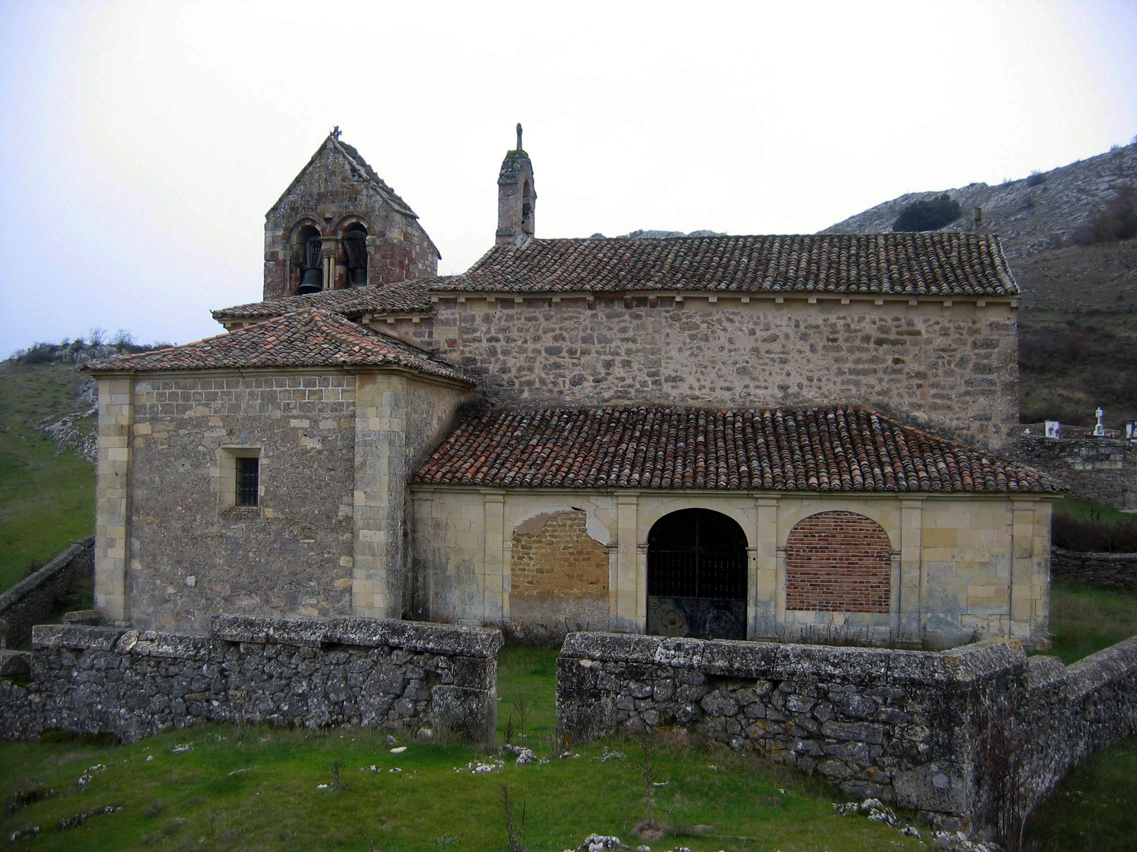 Church of Saint Mary in Barrio de Santa María, Becerril del Carpio (Palencia, Castile and León).